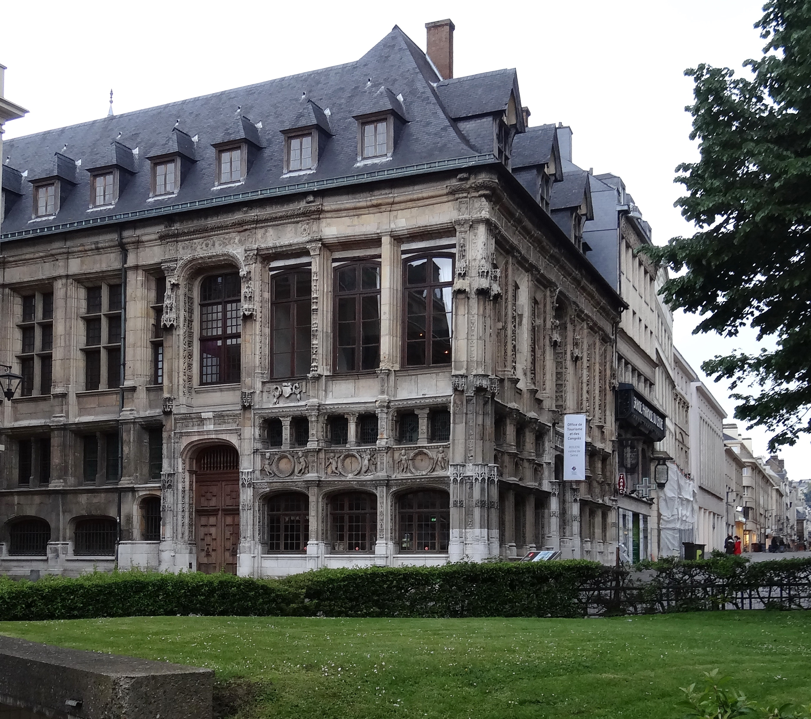 Former Bureau des Finances (regional financial administration) and actual Tourist information center in Rouen (Haute-Normandie, France)